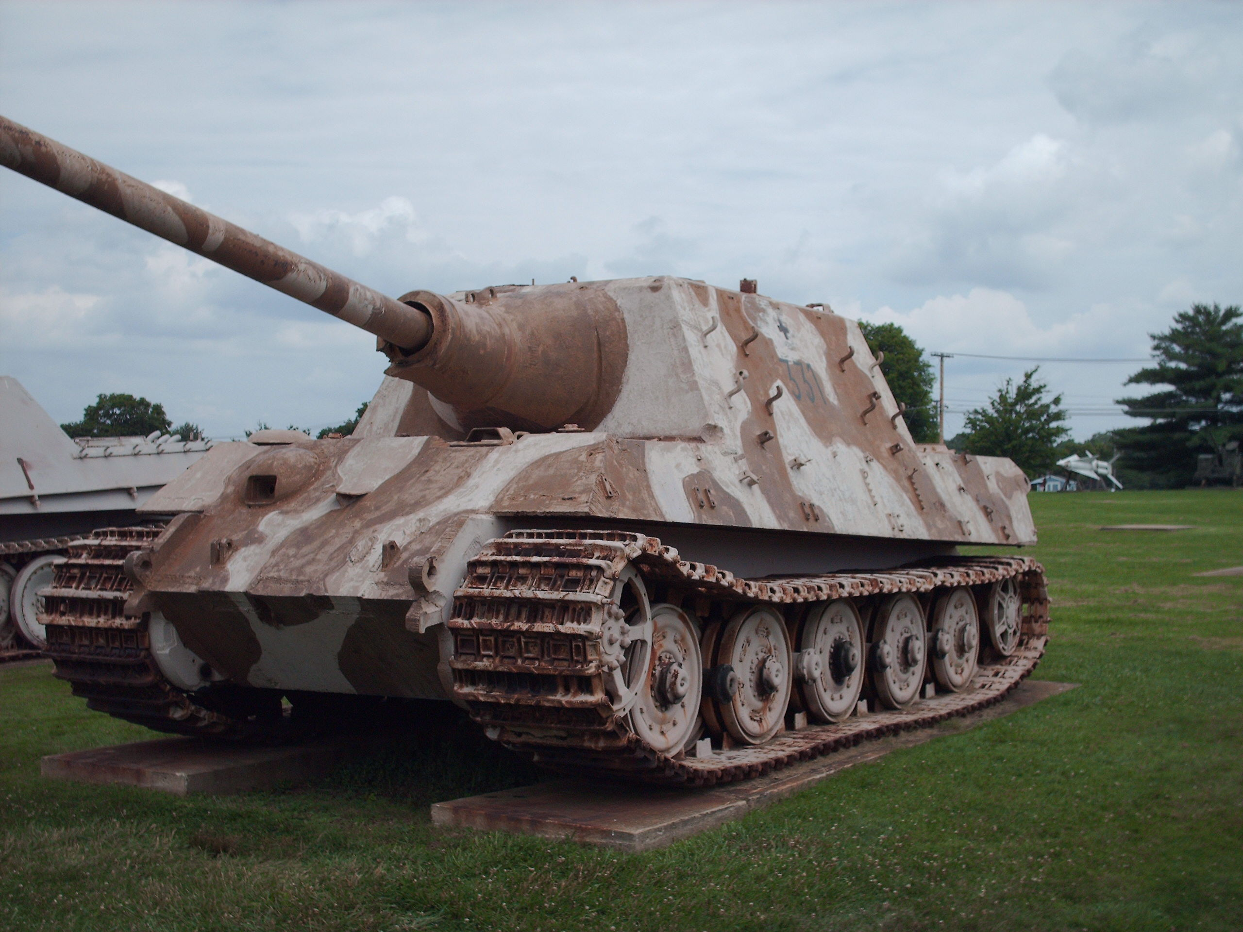 This is an angled view of the Jagdtiger tank killer that used to be located at the US Army Ordnance Museum in Aberdeen, Maryland.